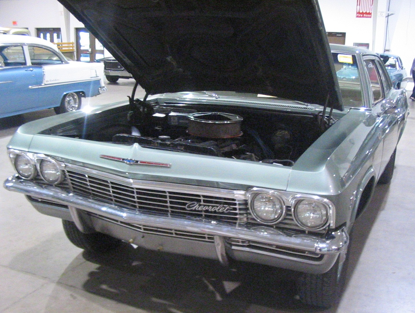 1965 Chevrolet Biscayne photographed in Mississauga, Ontario, Canada at the Toronto Classic Car Auction of spring 2012.